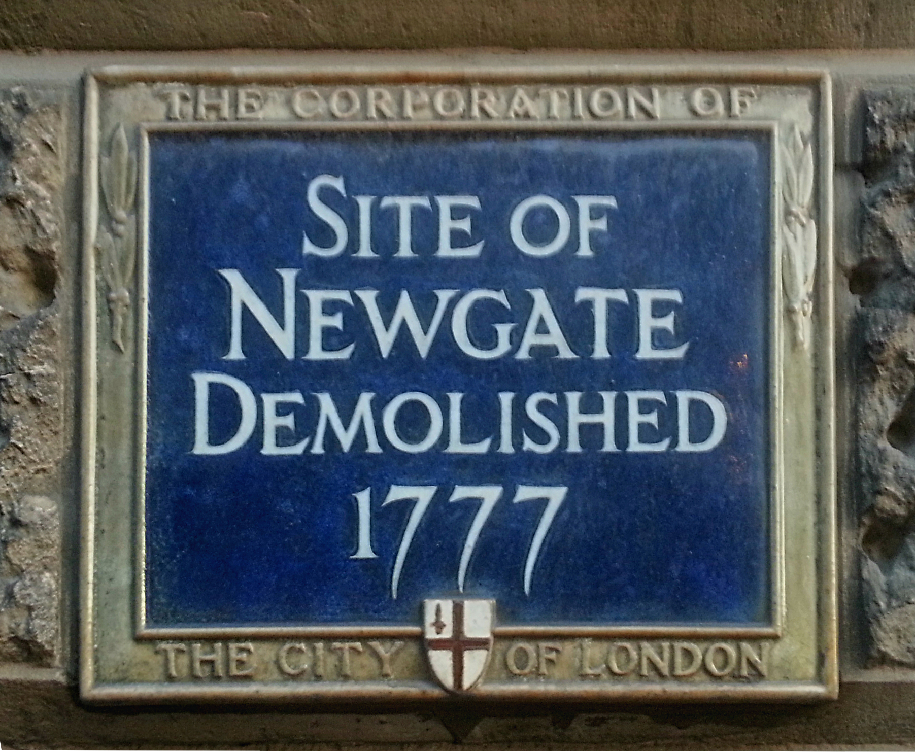 London Newgate 1777